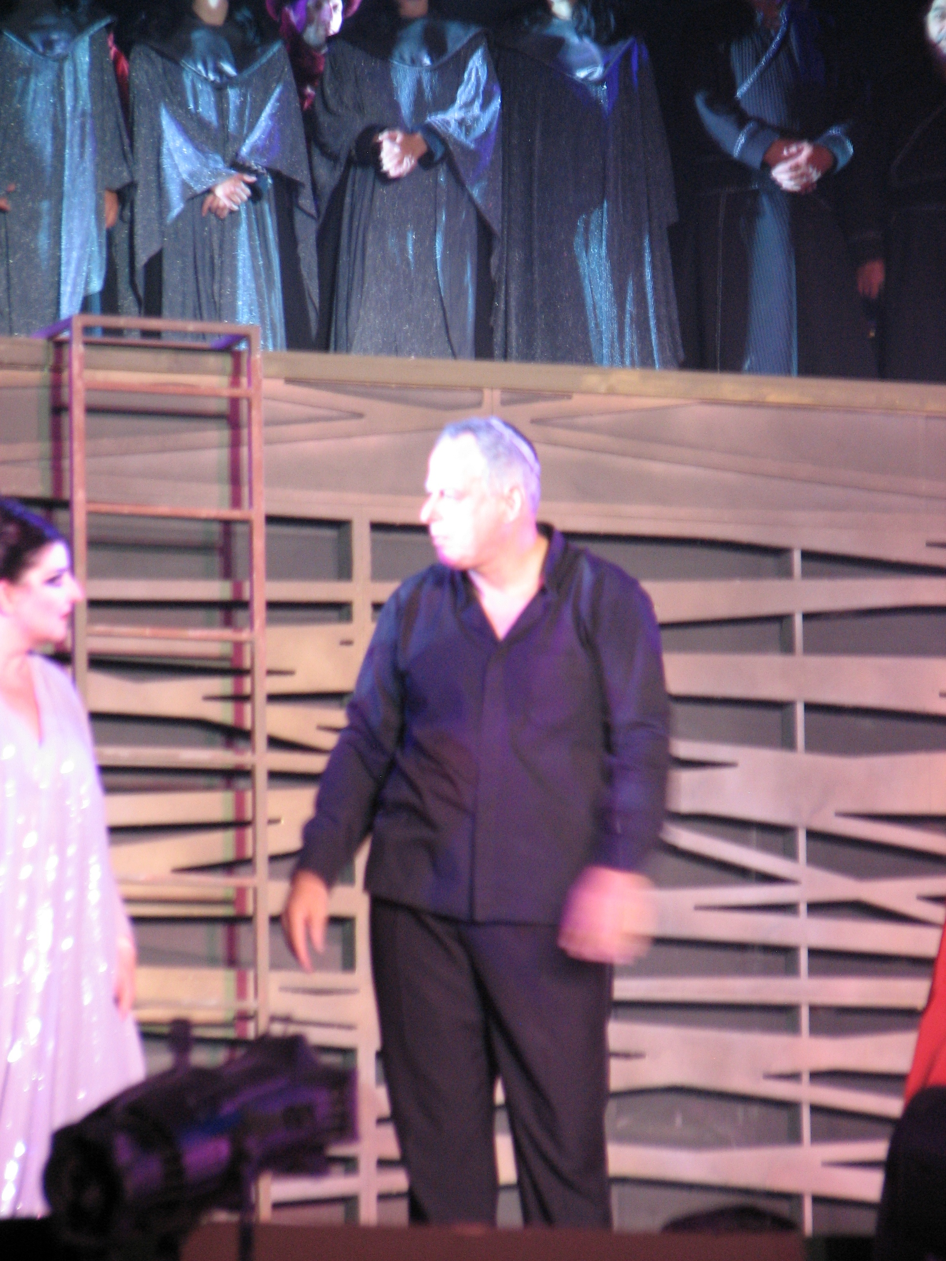 Nabucco is an opera in four acts by Giuseppe Verdi. - Nabucco on Masada in Israel. Conductor Daniel Oren נַבּוּקוֹ (